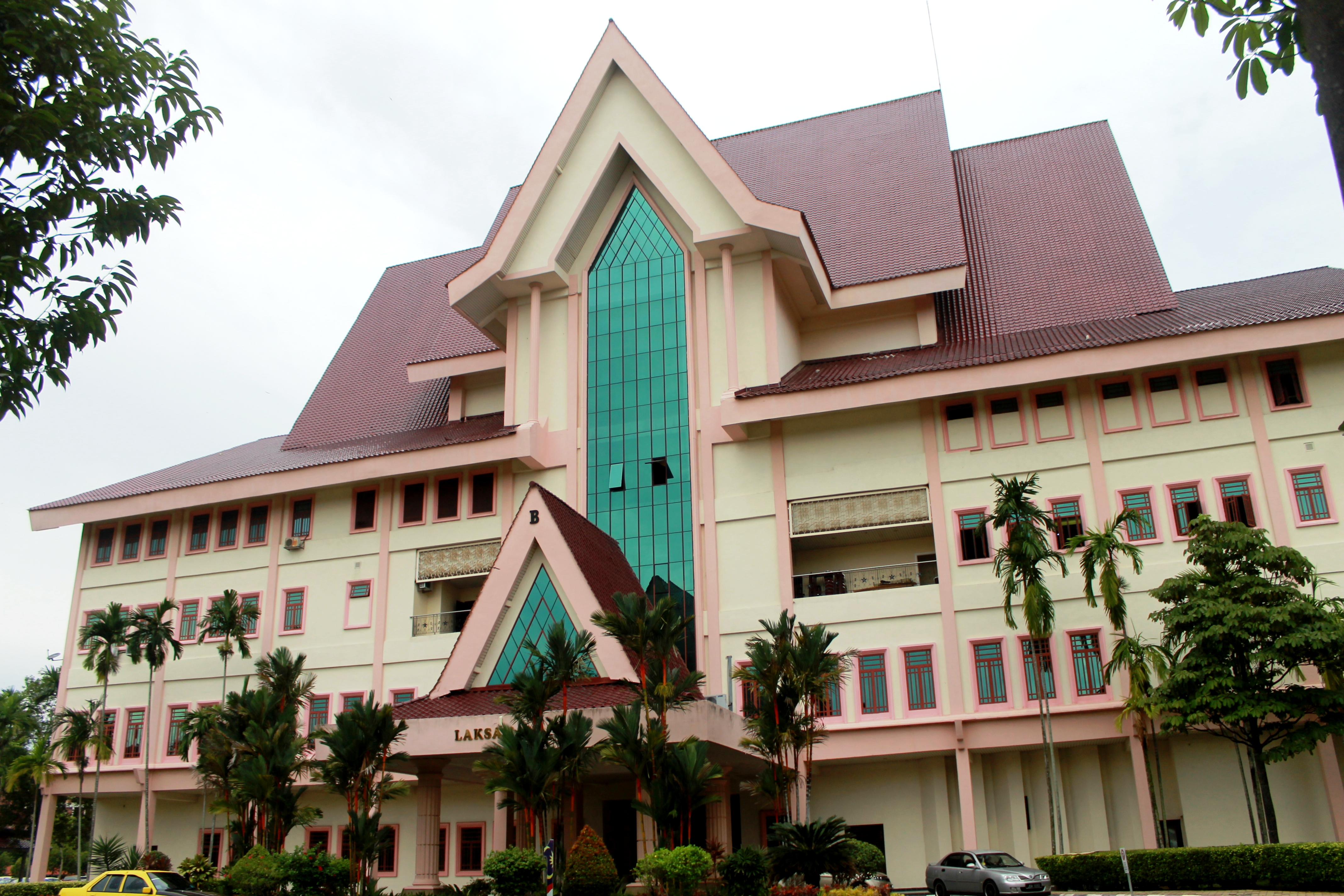 Blok Laksamana of Seri Negeri Complex at Ayer Keroh, Malacca, Malaysia. This building houses the Malacca state legislative assembly.